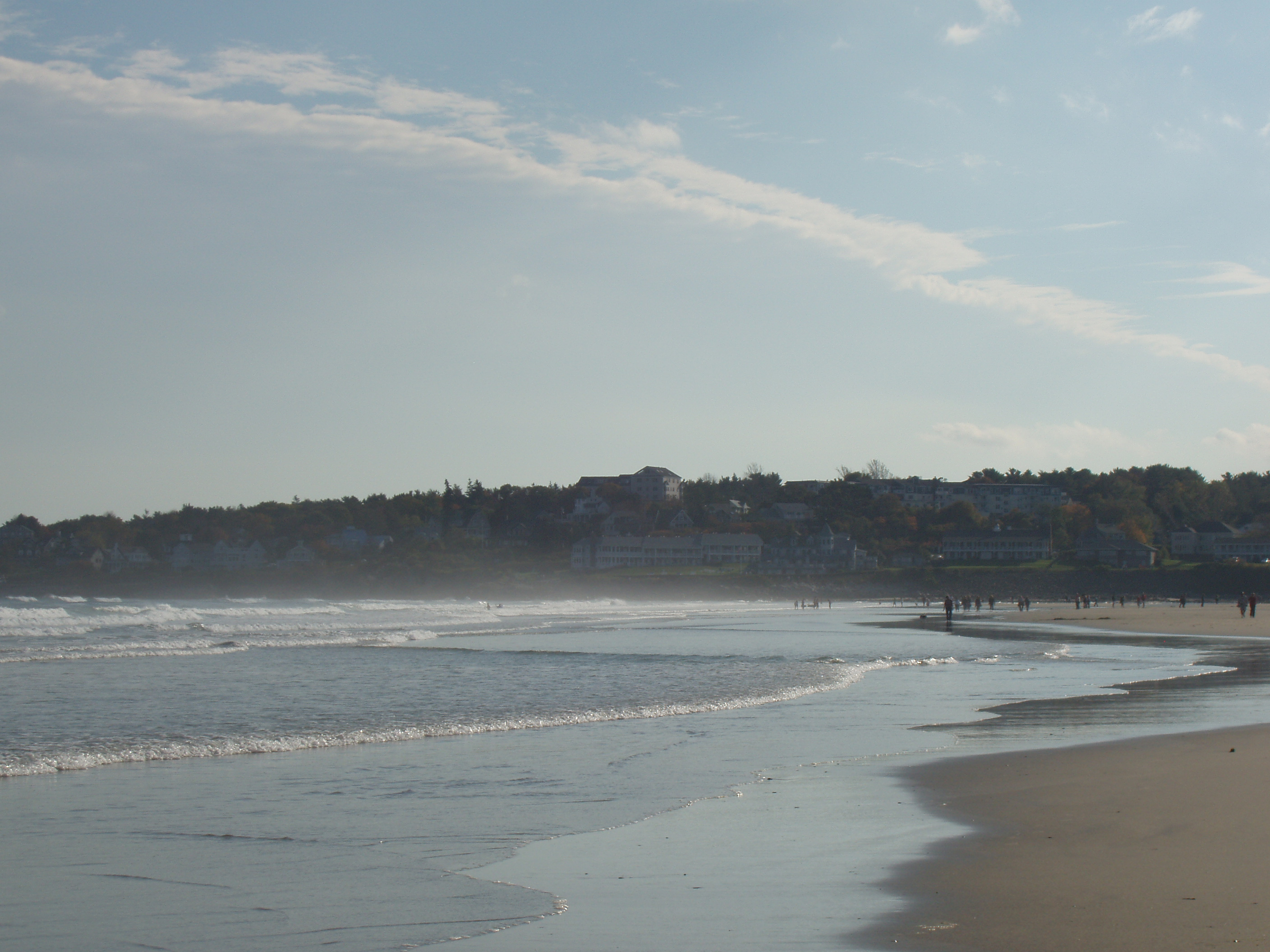 Public Beach in Ogunquit, Maine